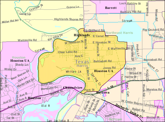 Map of Highlands CDP